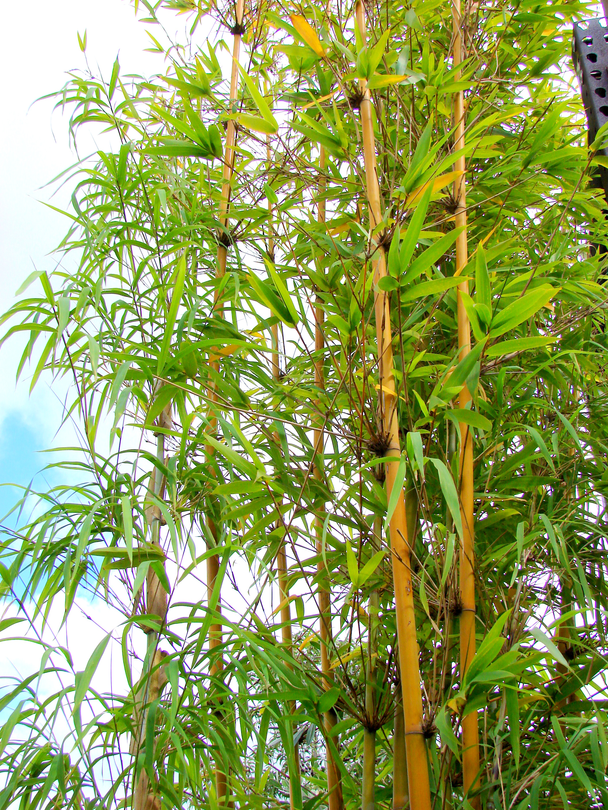 Bambusa textilis (habit). Location: Maui, Kula Ace Hardware and Nursery